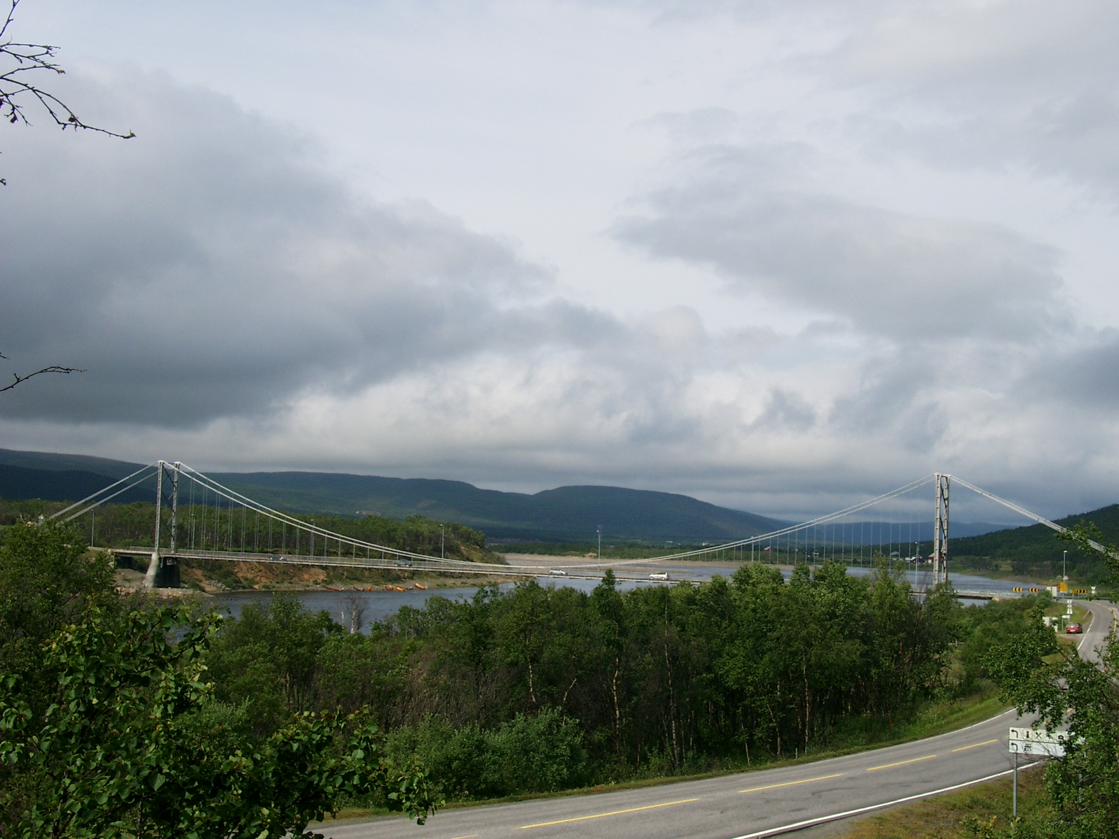 Bridge on River Tana at Tana bru, Tana commune, Norway